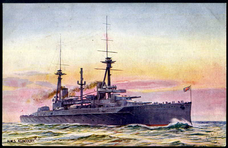 HMS Agincourt (1913).